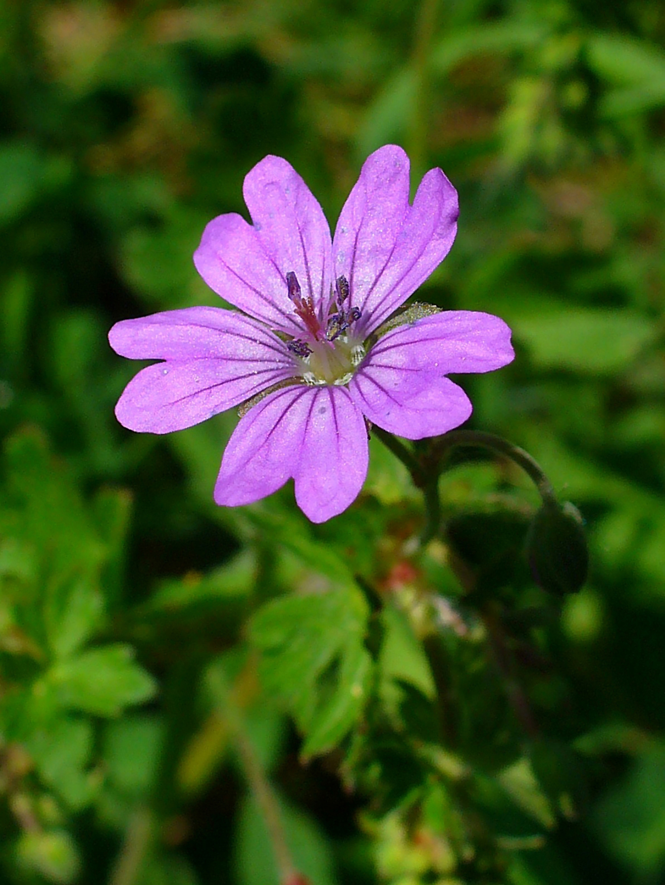 Geranium pyrenaicum, Geraniaceae, Hedgerow Cranesbill, Mountain Cranesbill, Pyrenean Cranesbill, flower; Karlsruhe, Germany.